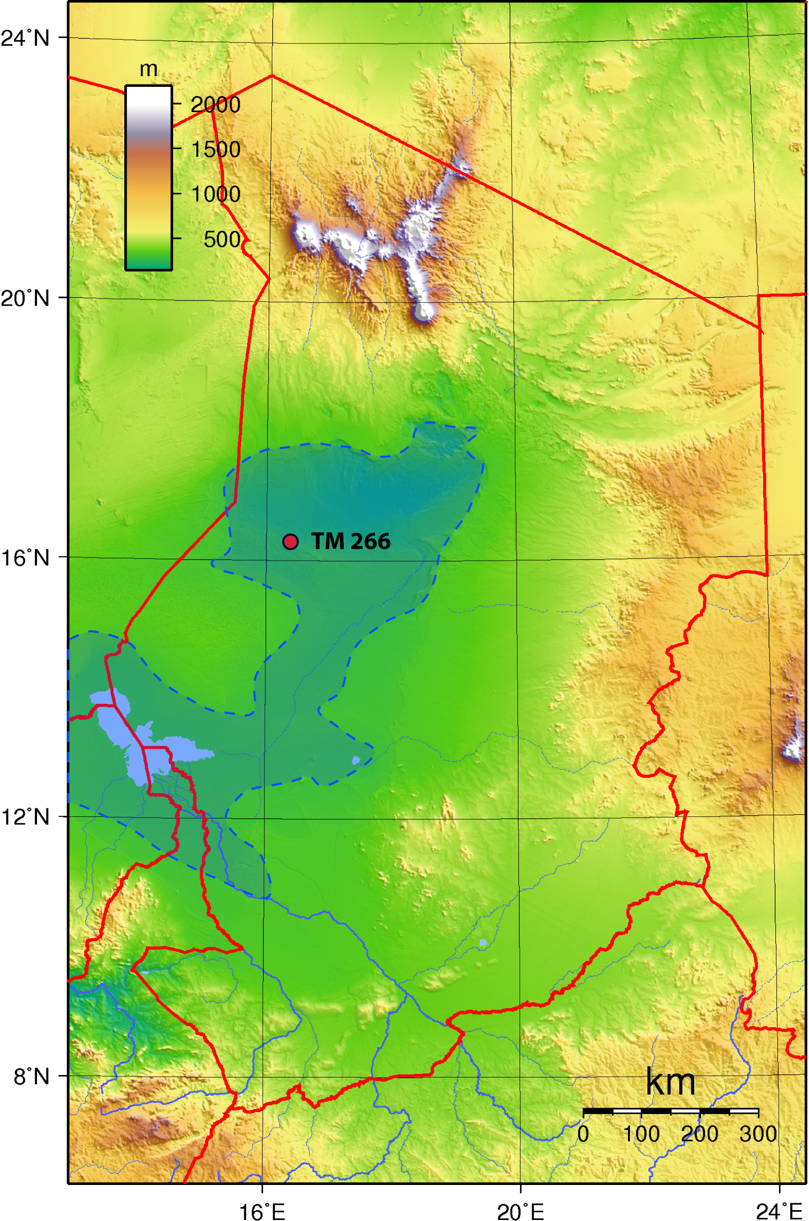 location of TM 266, place of discovery of the first Sahelanthropus tchadensis in Chad ; based on [1] and using Chad Topography.png (PD) by Sadalmelik as background. The light blue area limited by a blue dotted line refers to the inferred maximum extension of the Holocene Lake Mega Chad.